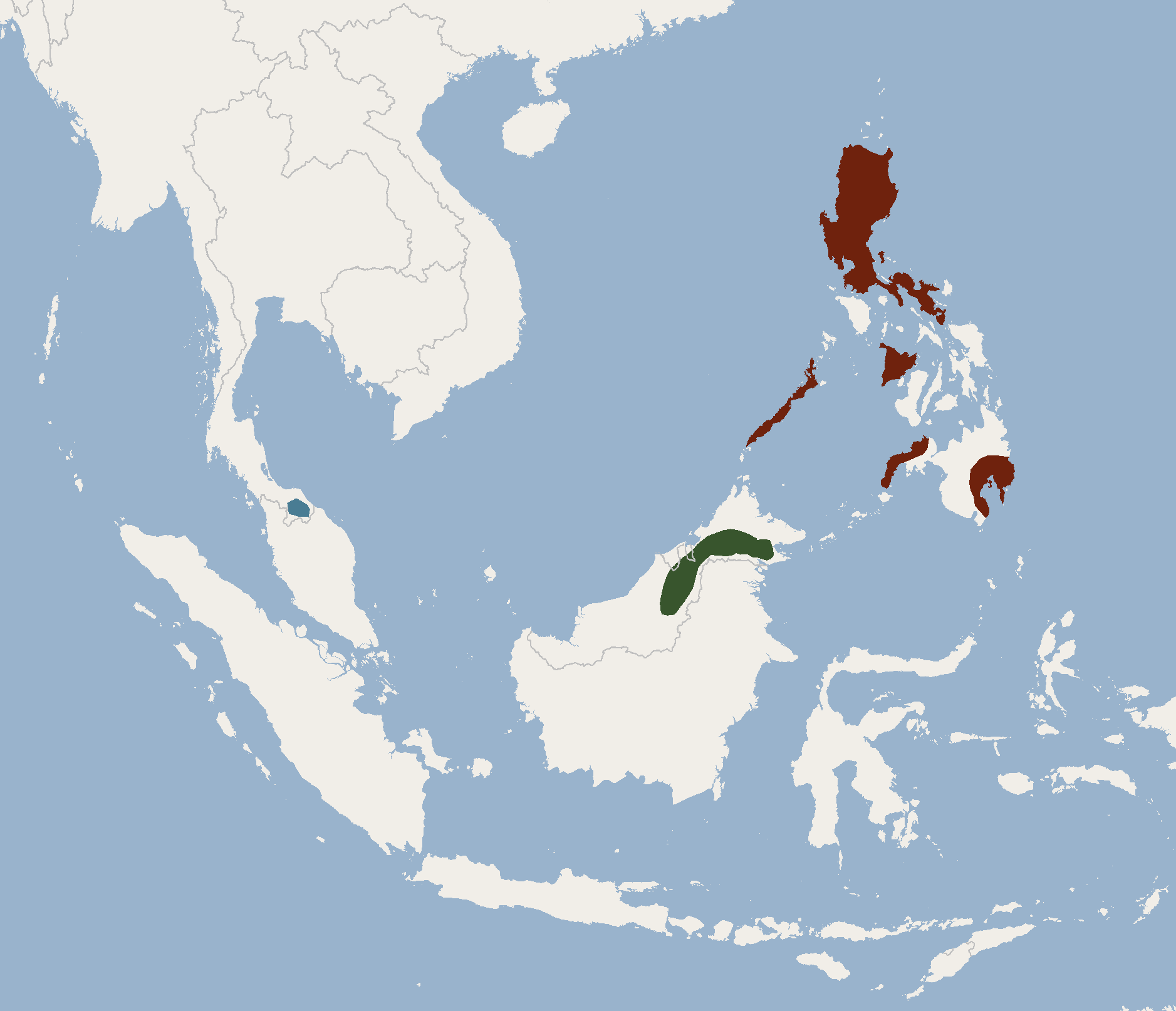 Geographical distribution of Kerivoula whiteheadi according to IUCNRedlist